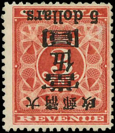 Red 6